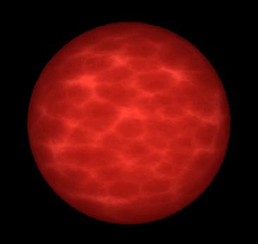 Snapshot and fix of an artists impression of a late M-star, L-star and a T-star.